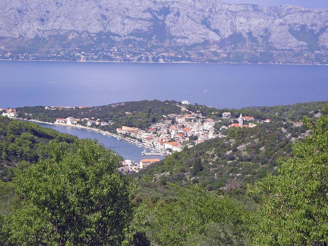 The island Brac in Croatia, middle of the picture is the city Povlja